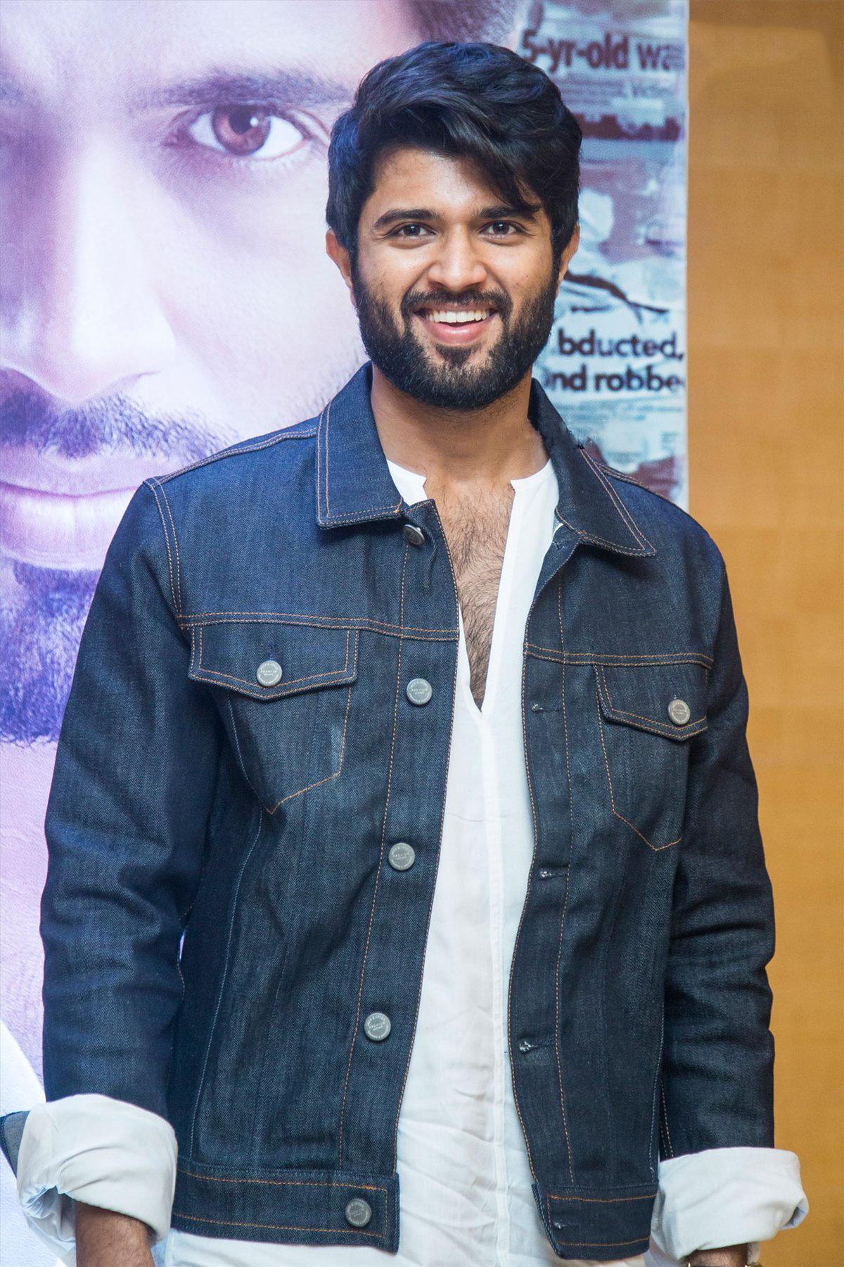 Vijay Devarakonda at the press meet of the film NOTA in March 2018